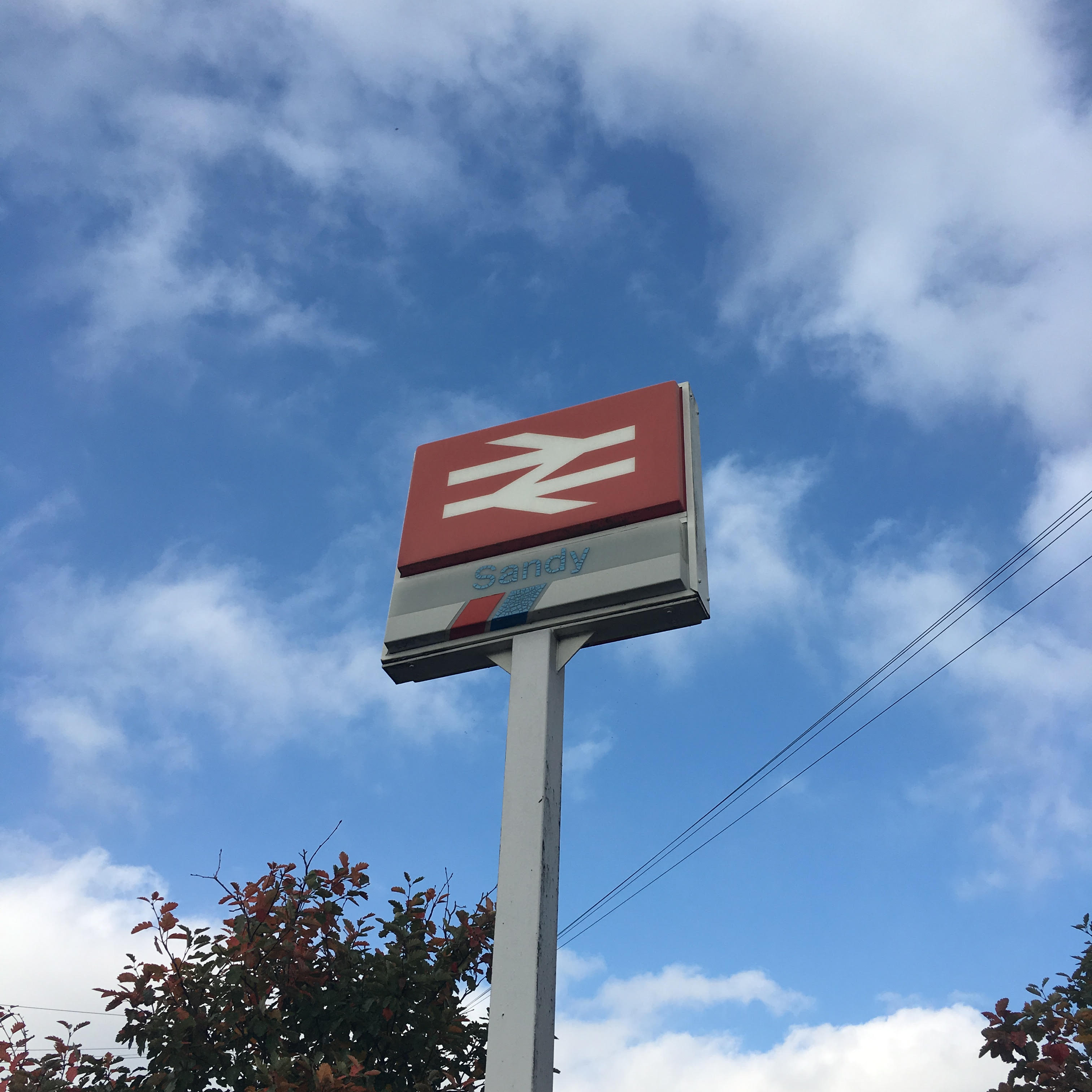 Signpost at Sandy Railway Station, Bedfordshire.